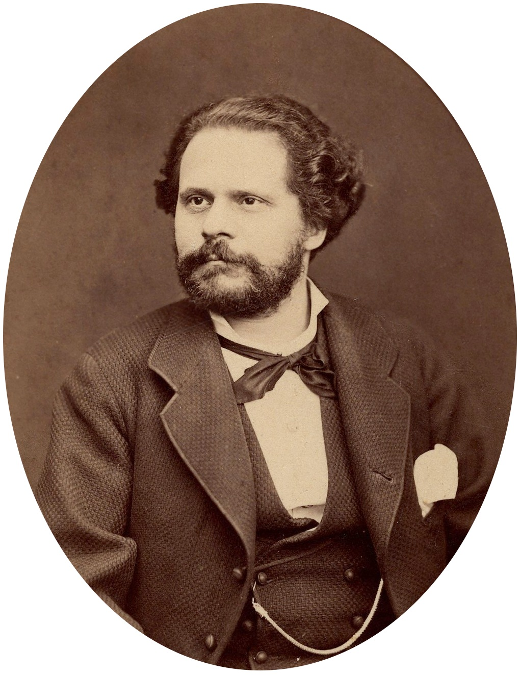 Giosuè Carducci (1835-1907)